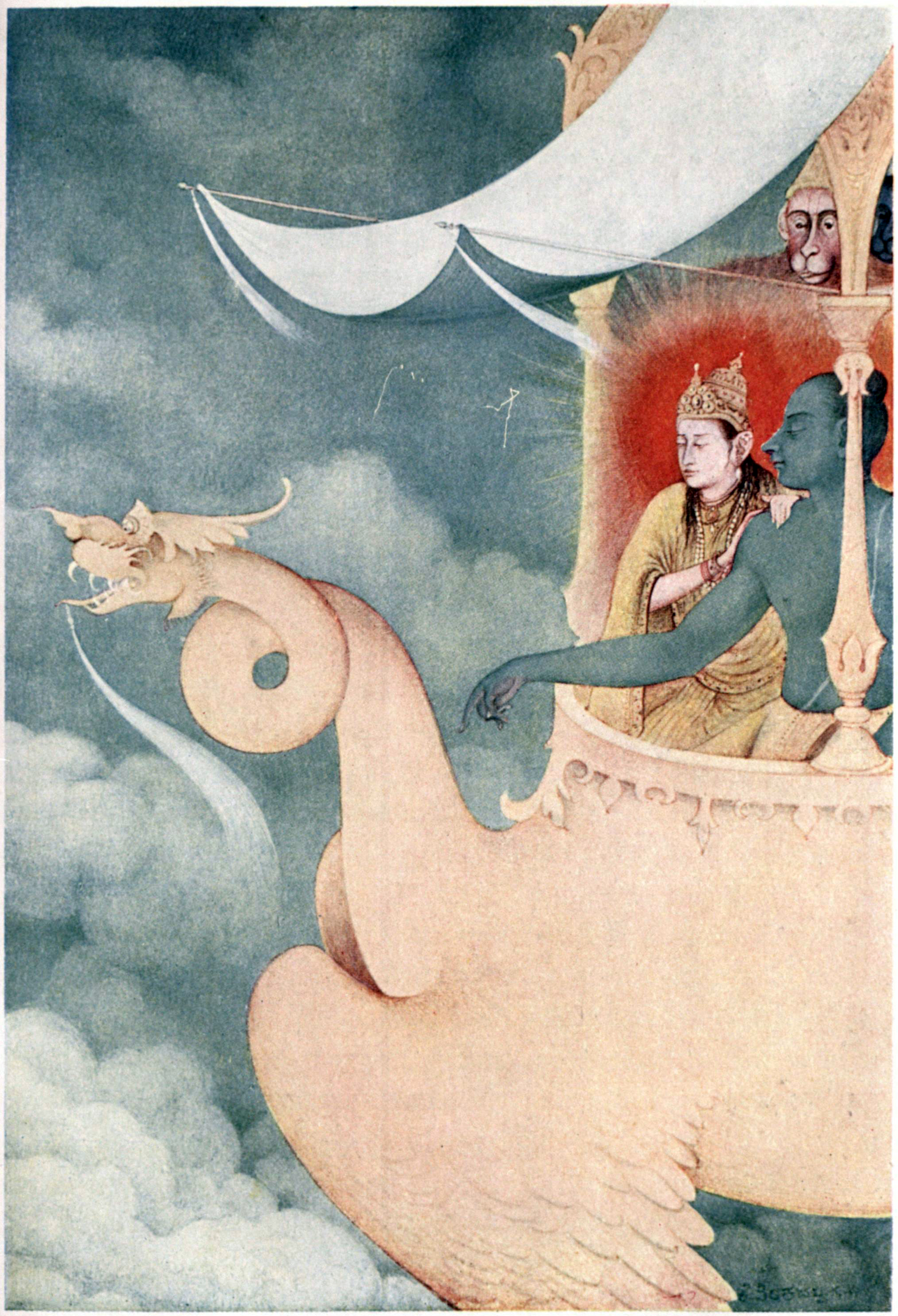 Myths of the Hindus & Buddhists (1914) Author: Nivedita, Sister, 1867-1911; Coomaraswamy, Ananda Kentish, 1877-1947 Subject: Mythology, Hindu; Mythology, Indic; Buddha and Buddhism Publisher: London Harrap Possible copyright status: NOT_IN_COPYRIGHT Language: English Call number: AAV-0085 Digitizing sponsor: MSN Book contributor: Robarts - University of Toronto Collection: robarts; toronto Full catalog record: MARCXML [Open Library icon]This book has an editable web page on Open Library. Be the first to write a review Downloaded 855 times Reviews Selected metadata Identifier: mythsofthehindus00niveuoft Copyright-evidence-operator: University of Toronto scanning center Copyright-region: US Copyright-evidence: Evidence reported by University of Toronto scanning center for item mythsofthehindus00niveuoft on May 12, 2006; no visible notice of copyright and date found; stated date is 1914; not published by the US government; Have not checked for notice of renewal in the Copyright renewal records. Copyright-evidence-date: 2006-05-12 20:39:44 Scanningcenter: UofT Operator: scanner-joanna-woodcock Mediatype: texts Scanner: uoft3 Scandate: 20060517130853 Imagecount: 518 Sponsordate: 20060531 Filesxml: Thu Mar 18 6:17:31 UTC 2010 Ppi: 500 Identifier-access: Identifier-ark: ark:/13960/t50g4p70x